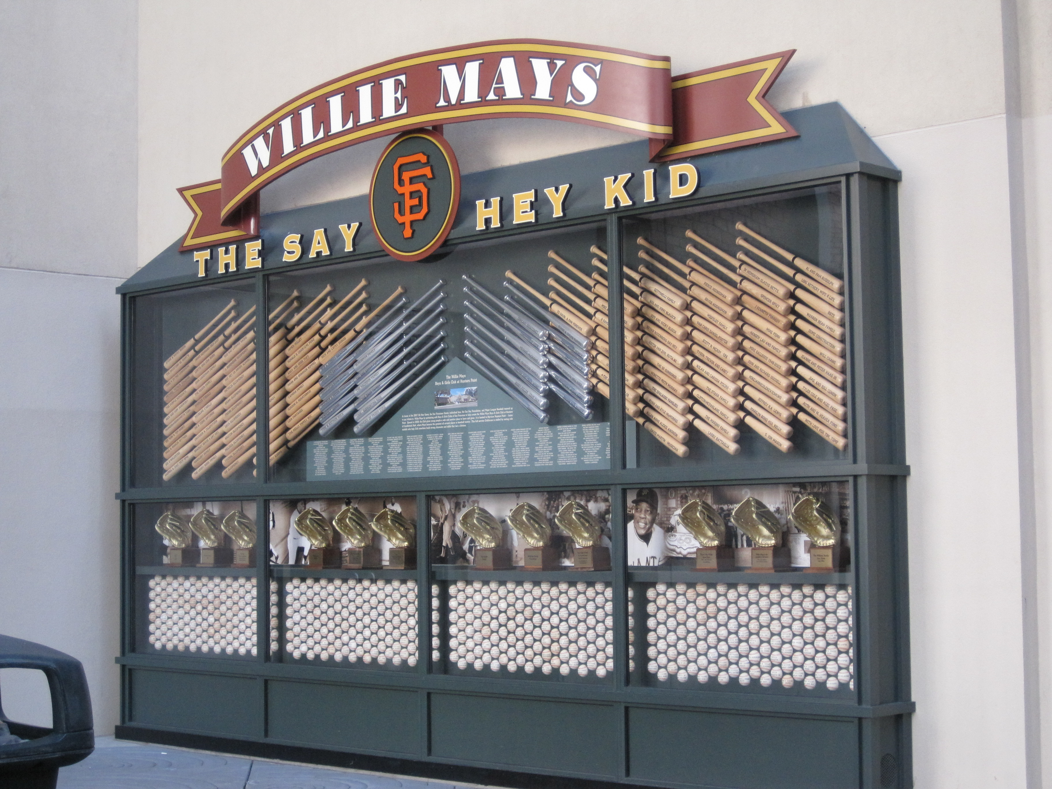 The Willie Mays tribute display at AT&T Park in San Francisco, California.